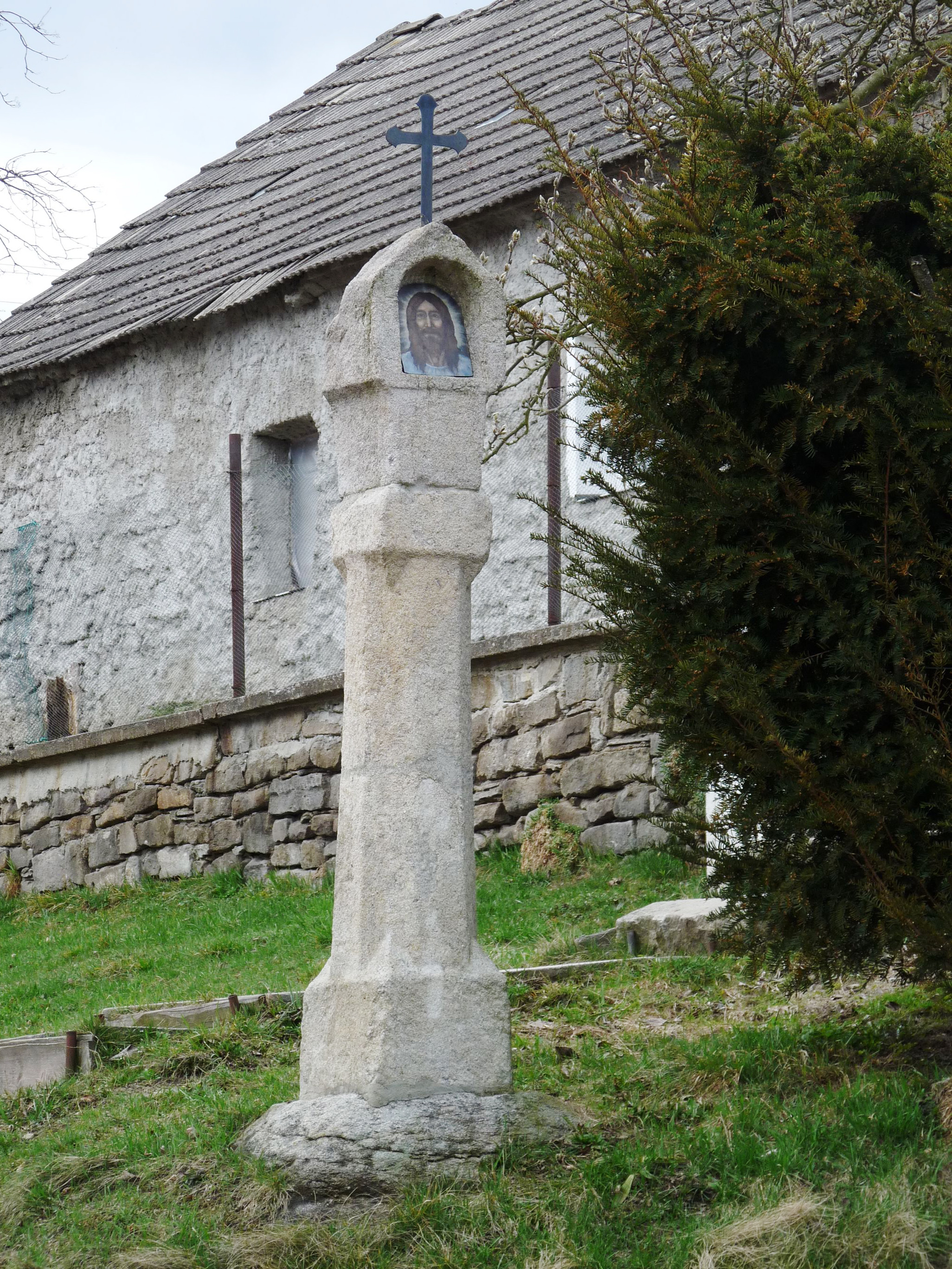 Wayside shrine in the village of Boršíkov, České Budějovice District, South Bohemian Region, Czech Republic.